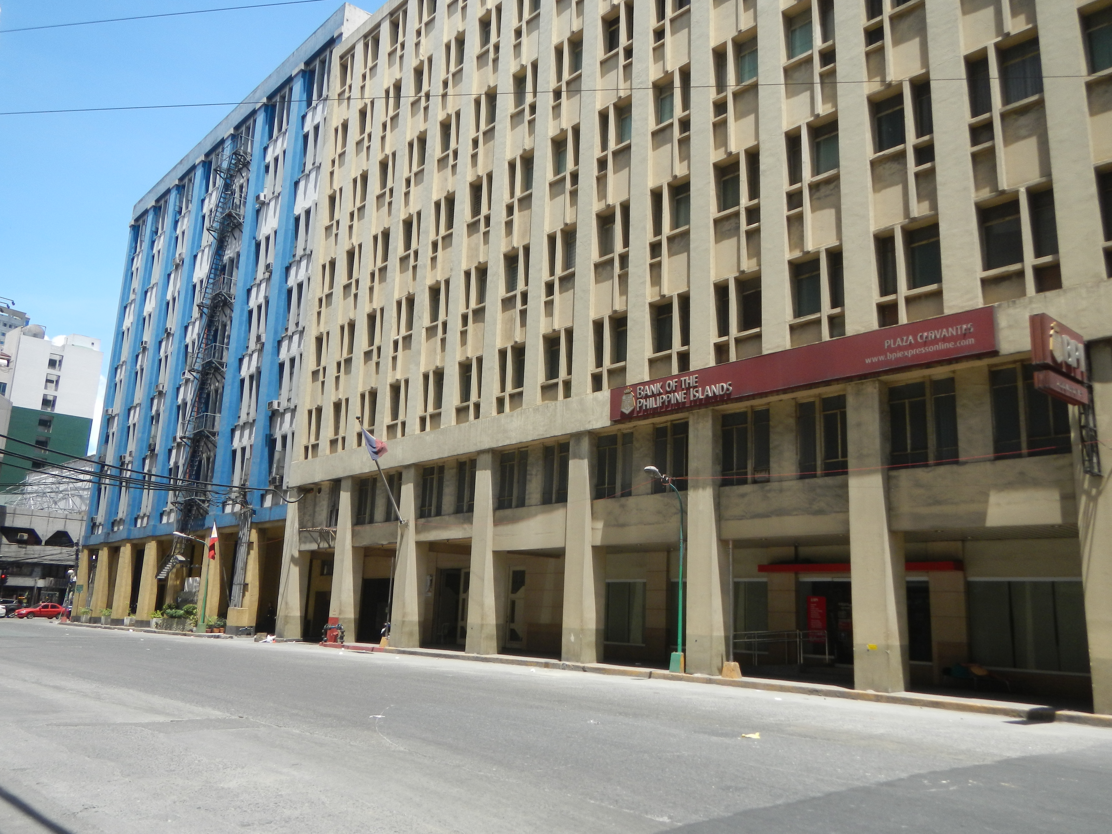 City of Manila, Escolta Street corner Tomas Pinpin Street City of Manila, Santa Cruz, Manila and Binondo, List of Cultural Properties of the Philippines in Metro Manila, List of Cultural Properties of Santa Cruz, Mariano Uy Chaco Building, Philippine National Bank Building, Binondo, Manila Chinatown Welcome Arch, along Pasig River upon Jones Bridge Puente de España, Load limit 20 Tons Sta. 2+208 in front of the Old Filipino-Chinese Friendship Arch FFCCCI along Quintin Paredes Street corner San Vicente Street in Plaza Cervantes, Land Management Bureau (Philippines) Land Management Bureau Philippines (Binondo office).